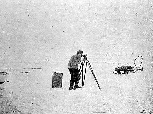 Louis Bernacchi (1876-1942) taking magnetic observations on sea ice on the Southern Cross Expedition (1898-1900)